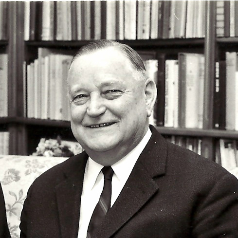 Christian Clavadetscher President of the Swiss Council of States 1968-69